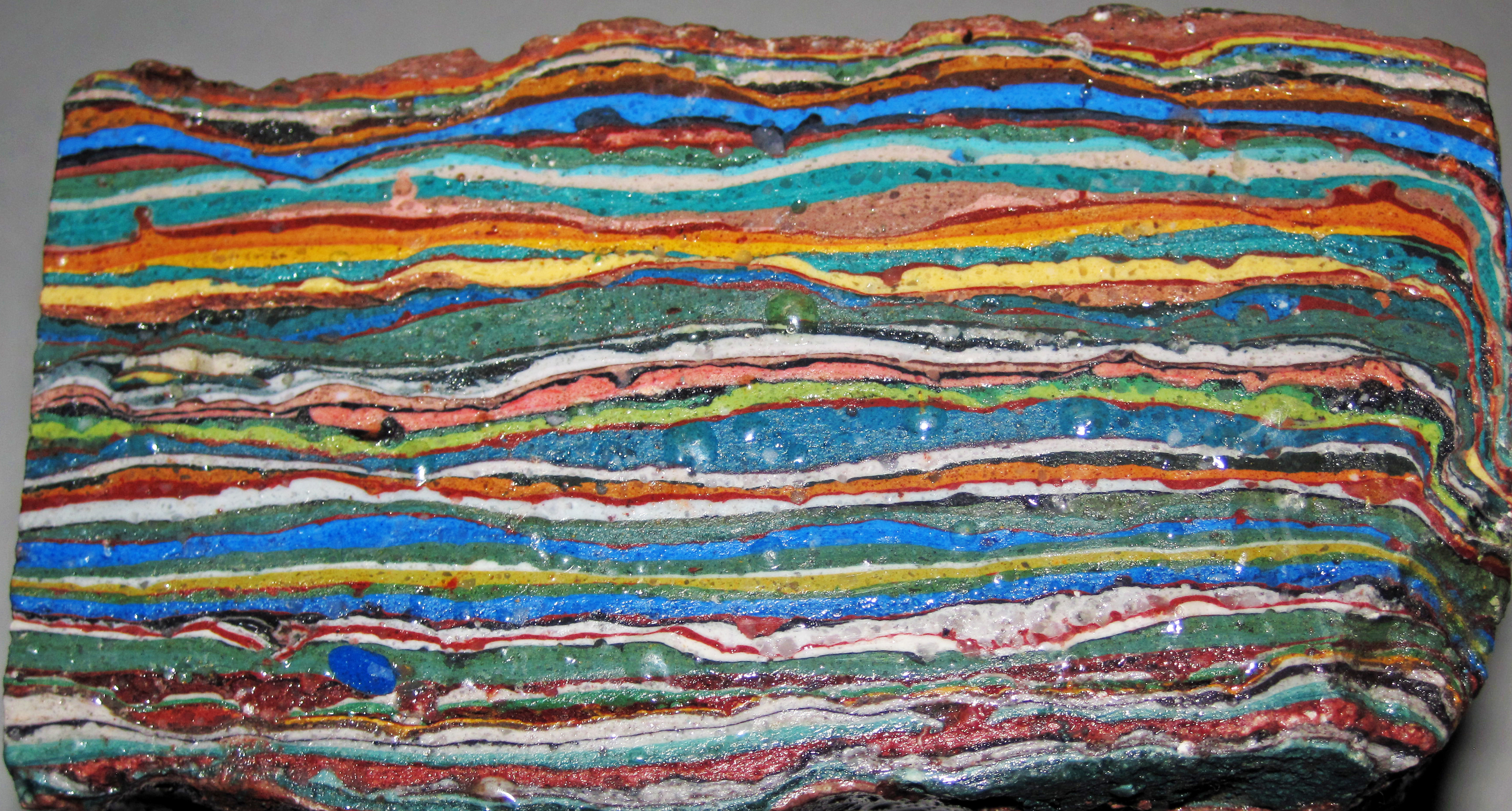 "Rainbow calsilica" is man-made material attributed to Mexico (?) that consists of irregular, colorful layers. It is intended to imitate "fordite", which is an artificial material composed of numerous layers of car paint (see elsewhere in this photo album). Stories have been invented to explain the origin of this material (for example, semi-natural sedimentary layers derived from an old tile-making plant). Chemical analysis has shown that there is nothing natural about these colorful layers. The bulk of rainbow calsilica is crushed calcium carbonate rock. Artificial dyes have been added (e.g., the blue is from a post-1930s pigment called PB15 and the greenish and yellowish bands contain a pigment called PY1, or Hansa Yellow). Plastic-like stabilizers have also been added - aliphatic polymers or a paraffin derivative, plus other undetermined chemicals. I like to call artificial stones "rock-us fake-us". They can be attractive, so I don't have a problem with them. I do have a problem with scammers lying about the origin of such materials. Chemical info. from: Kiefert (2003) - "Rainbow calsilica". The Journal of the Gemmological Association of Hong Kong 24: 41-46.